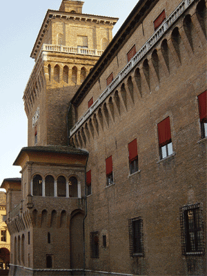 Foreshortening of the Estense castle